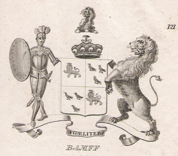 Engraving in Brown's The Peerage of Scotland, Edinburgh, 1834. Out of copyright.